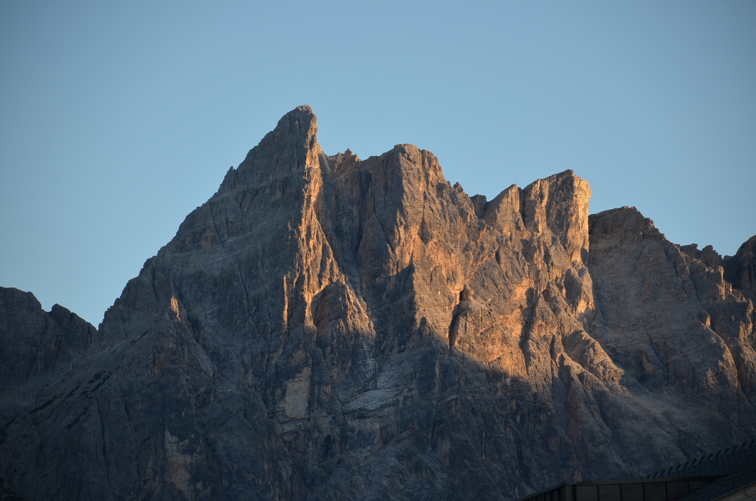 The summit of Mt. Einserkofel (2698m) Dolomites of Sexten / Tyrol